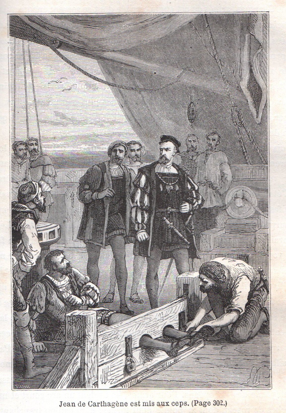 Gravure extraite du livre de Jules Verne : Les premiers explorateurs (1909)